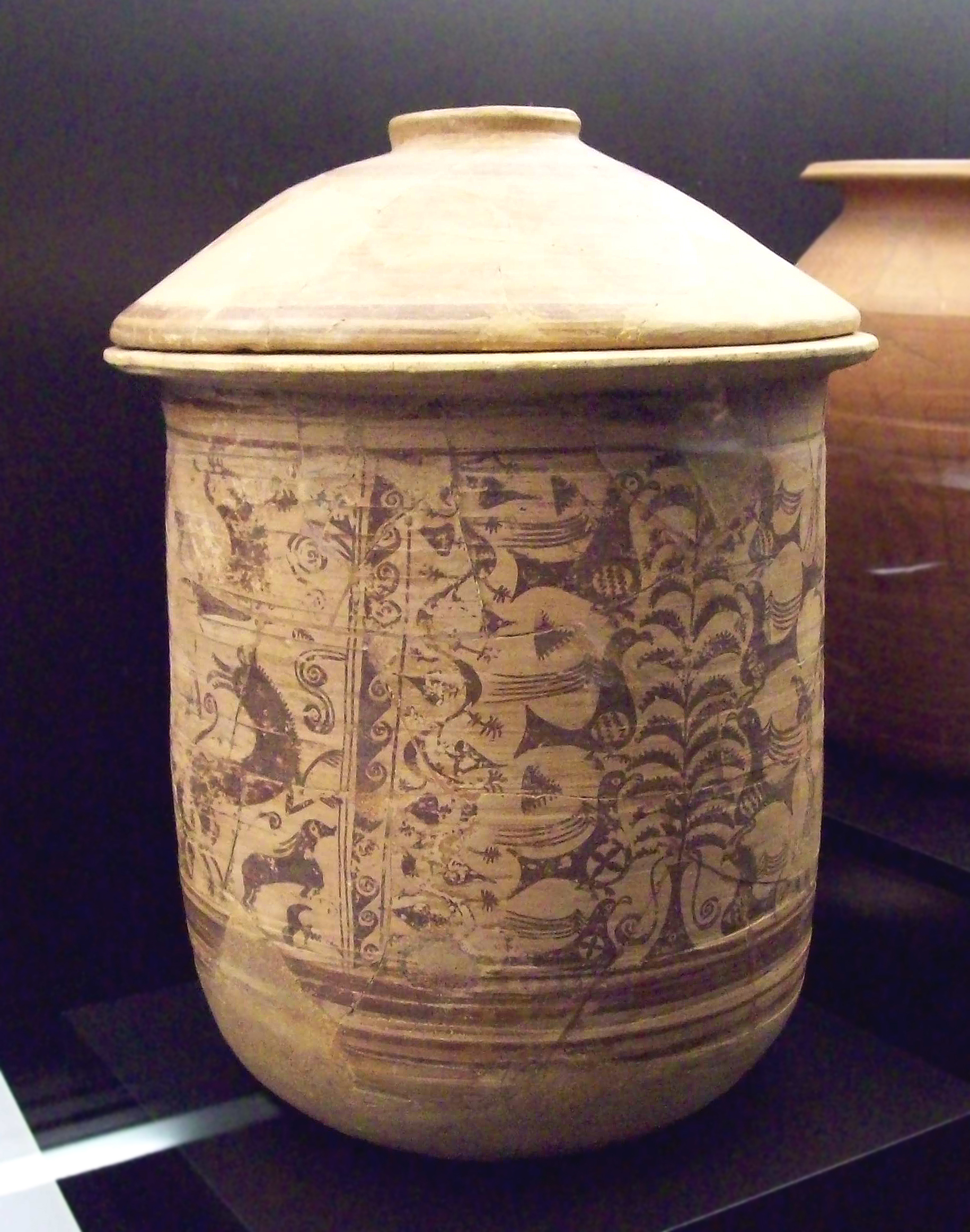 An Iberian kalathos and its lid.